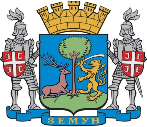 Coat of Zemun Source: Zemun municipality website by the Article 6, Paragraph 2, Ponit 2 this work is in the public domain .